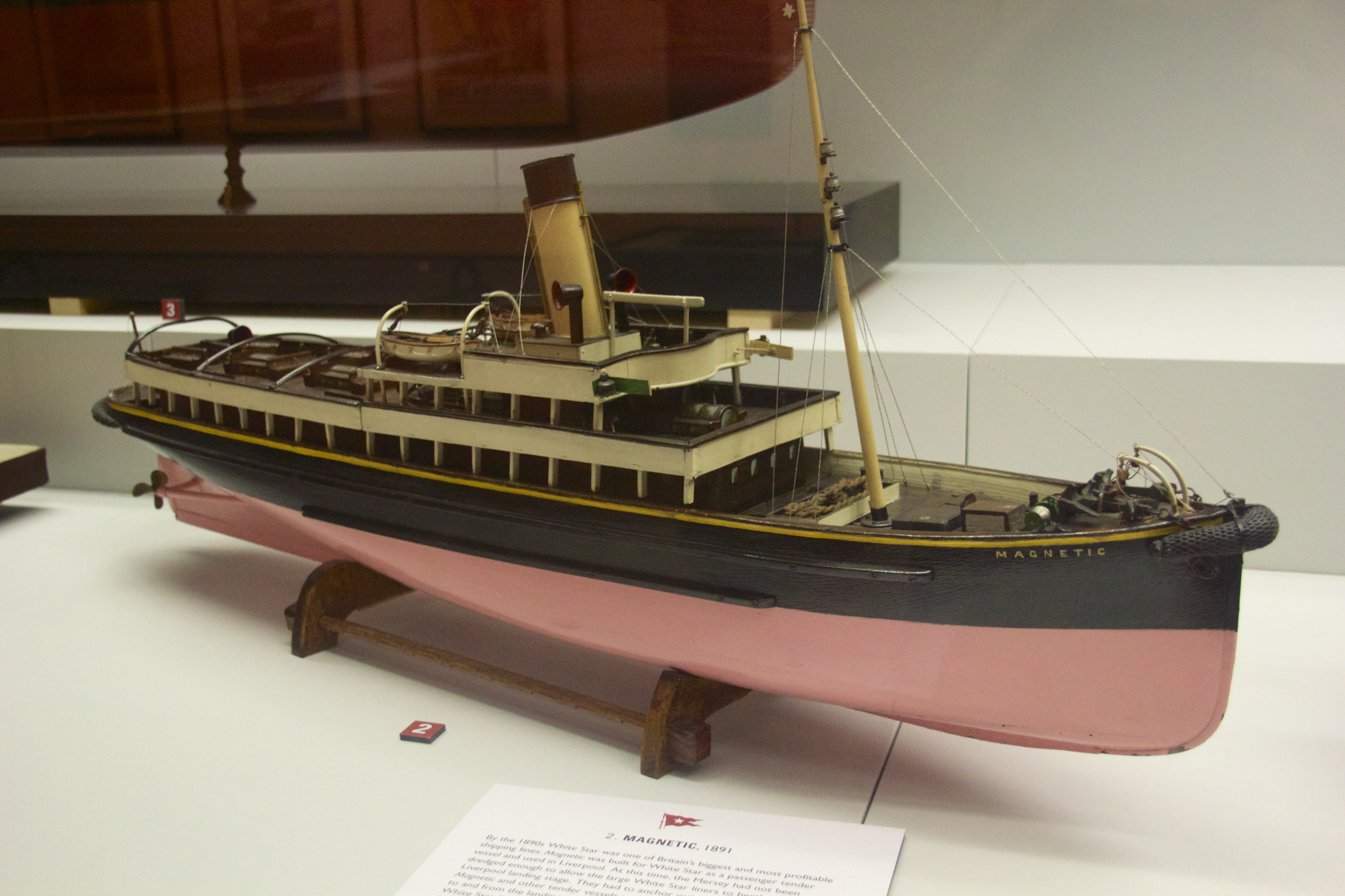 Magnetic, 1891. Model made by Captain SS Richardson. At the Merseyside Maritime Museum